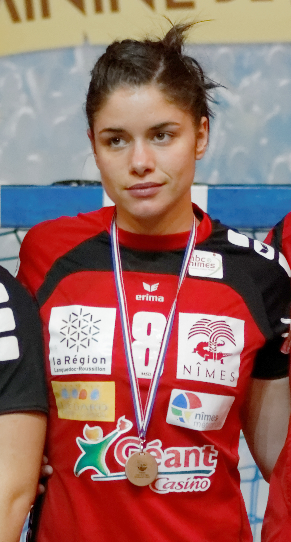 Final of the Women's handball French cup 2013. Handball Cercle Nîmes vs Issy Paris Hand, stadium Pierre-de-Coubertin at Paris.